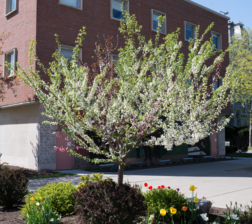 Tree of 40 Fruit by Sam Van Aken courtesy Ronald Feldman Fine Art - Tree 75 flowering.